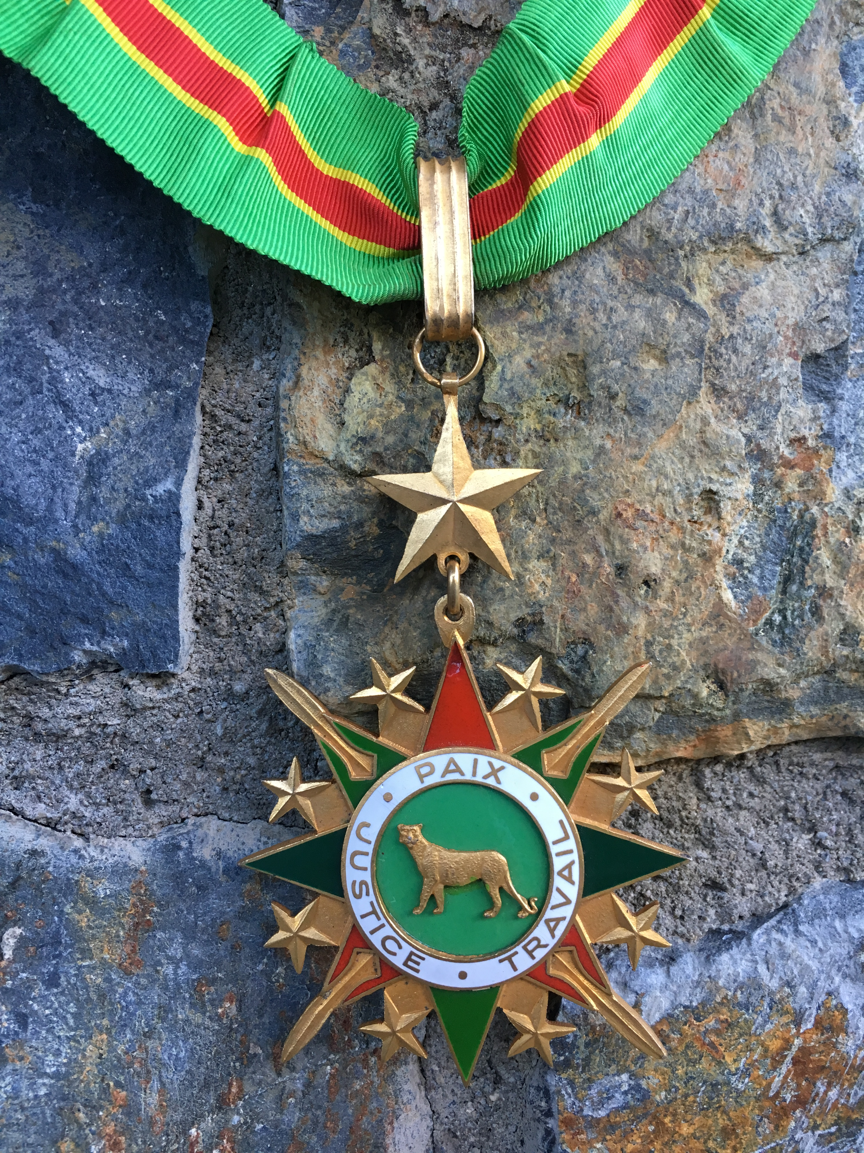 Commander cross of the National Order of the Leopard, Republic of Zaire. Second model.